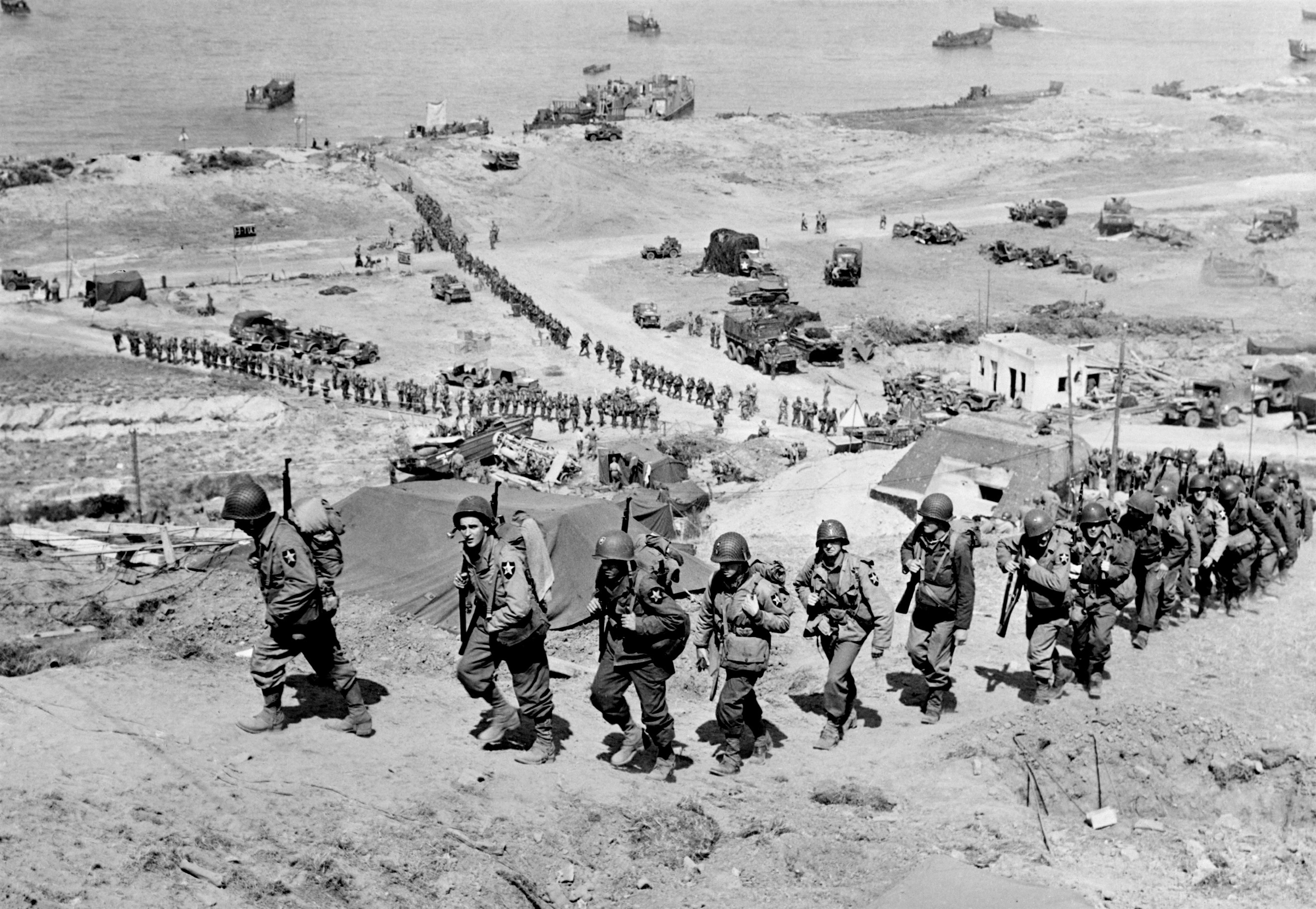 Troops of the US Army 2nd Infantry Division march up the bluff at the E-1 draw in the Easy Red sector of Omaha Beach, Normandy, France on D+1, June 7, 1944. They are going past the German bunker, Widerstandsnest 65 (WN 65), that defended the route up the Ruquet Valley to Saint-Laurent-sur-Mer.